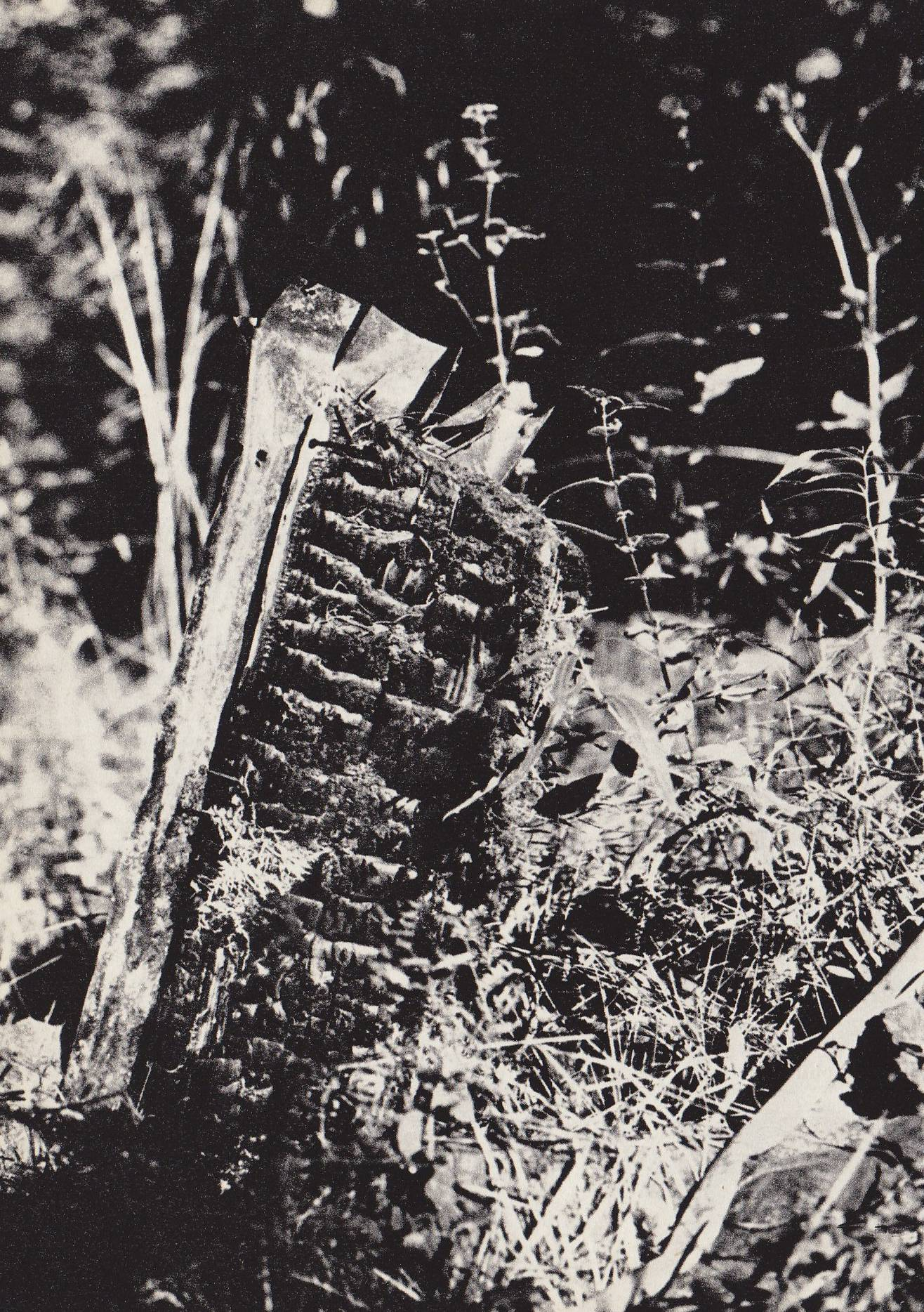 Burnt Zawój village